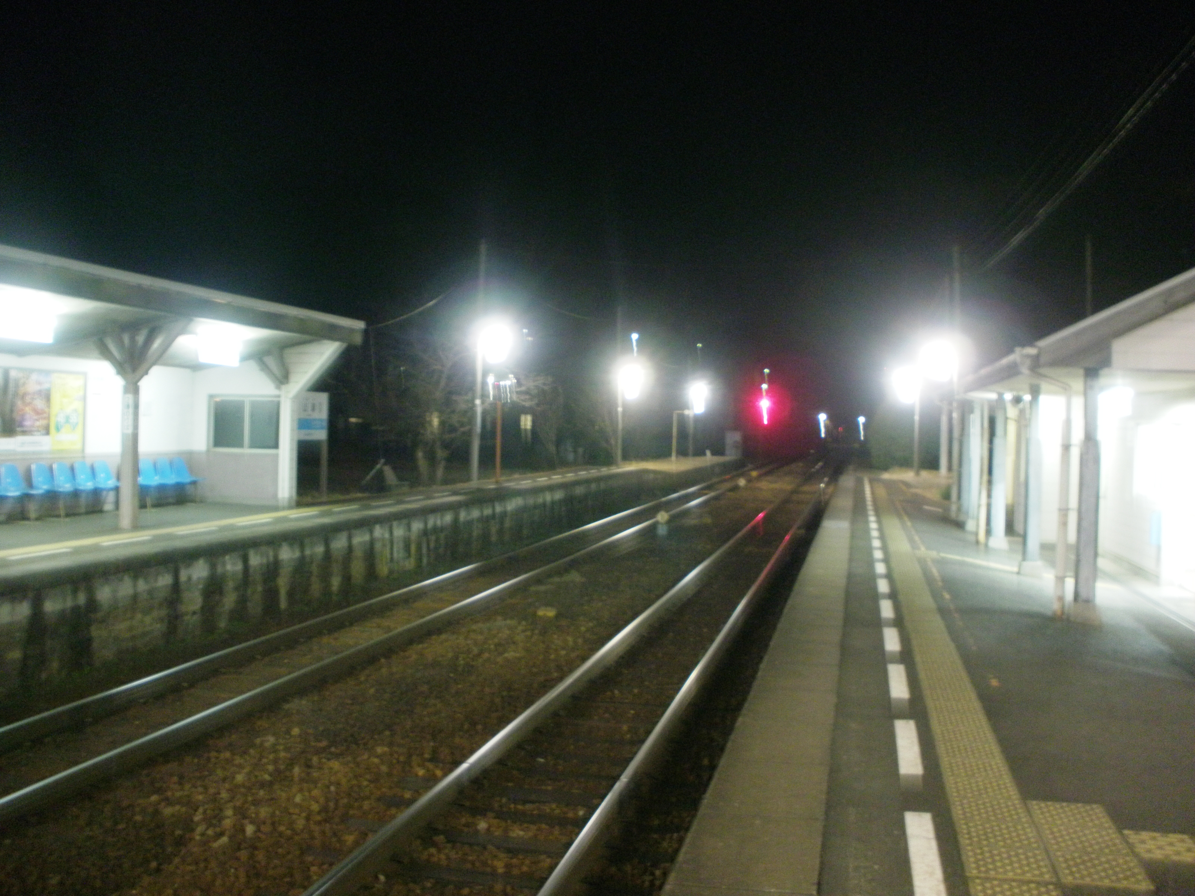 The platform of Yamase station